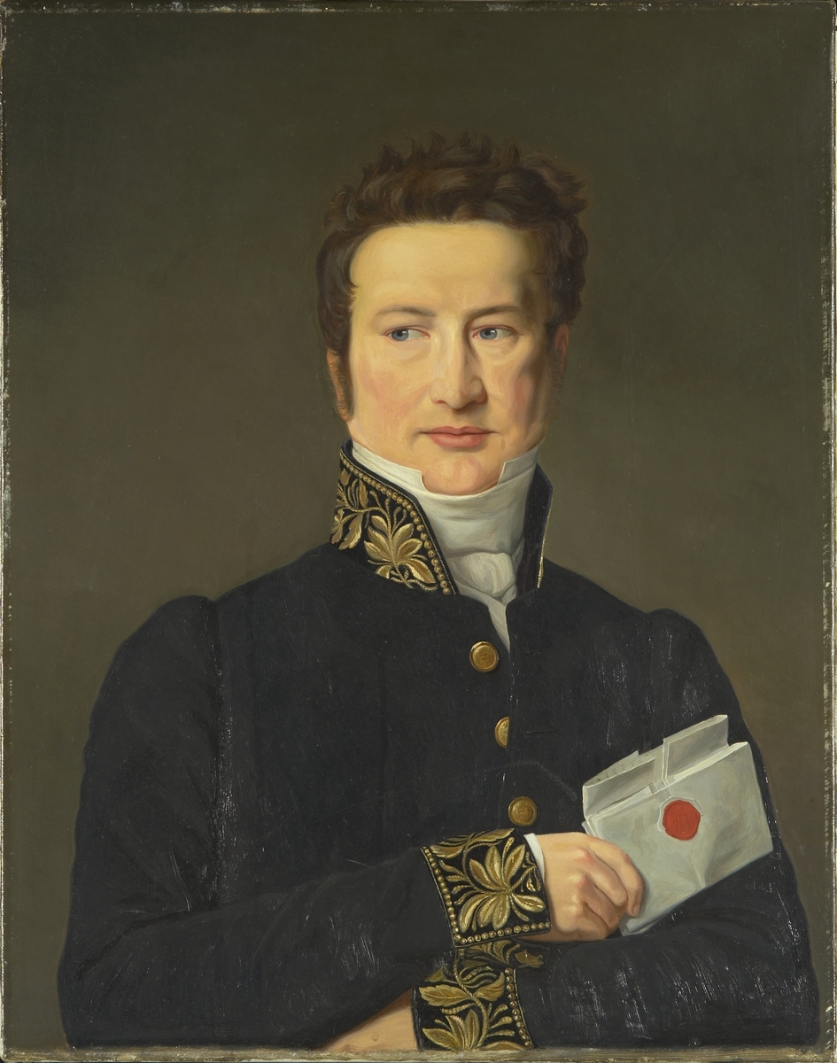 Portrait of Johan Gunder Adler painted by Thyra Tønder, copy after Christoffer Wilhelm Eckersberg.